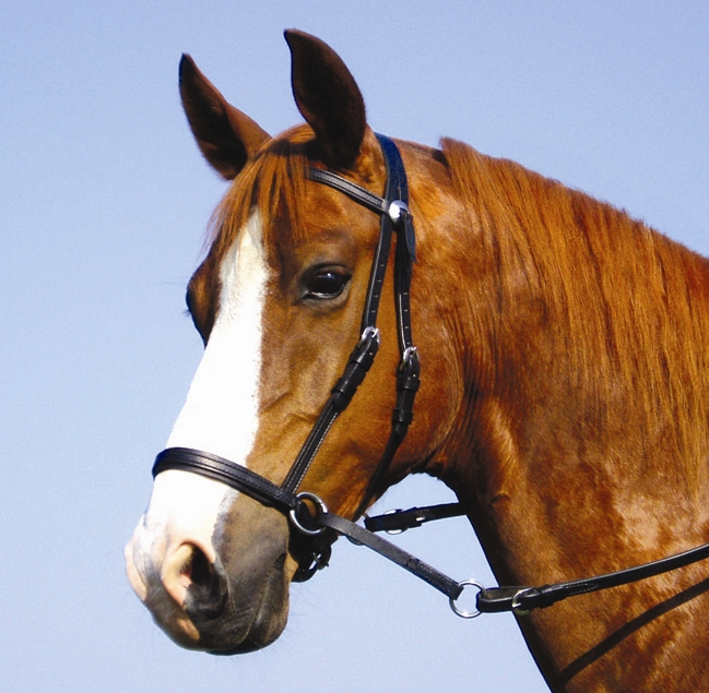 Description: Western style bitless bridle Source: The Bitless Bridle Author: Dr. Robert Cook FRCVS, PhD Permission: Dr. Cook releases the image into the public domain. See the discussion page. Attribution is requested. Permission has been sent to the OTRS.